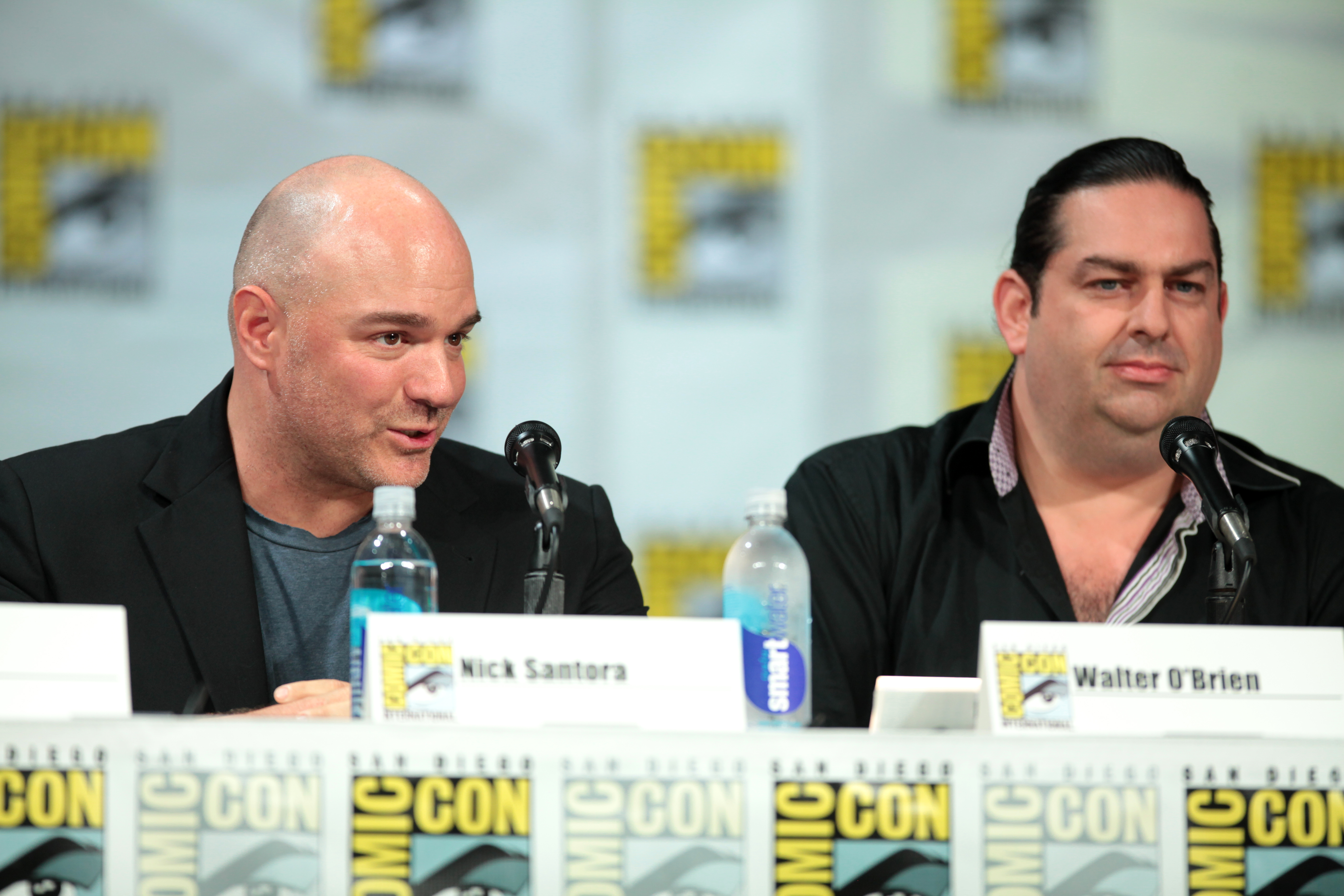 Nick Santora and Walter O'Brien speaking at the 2014 San Diego Comic Con International, for "Scorpion", at the San Diego Convention Center in San Diego, California.